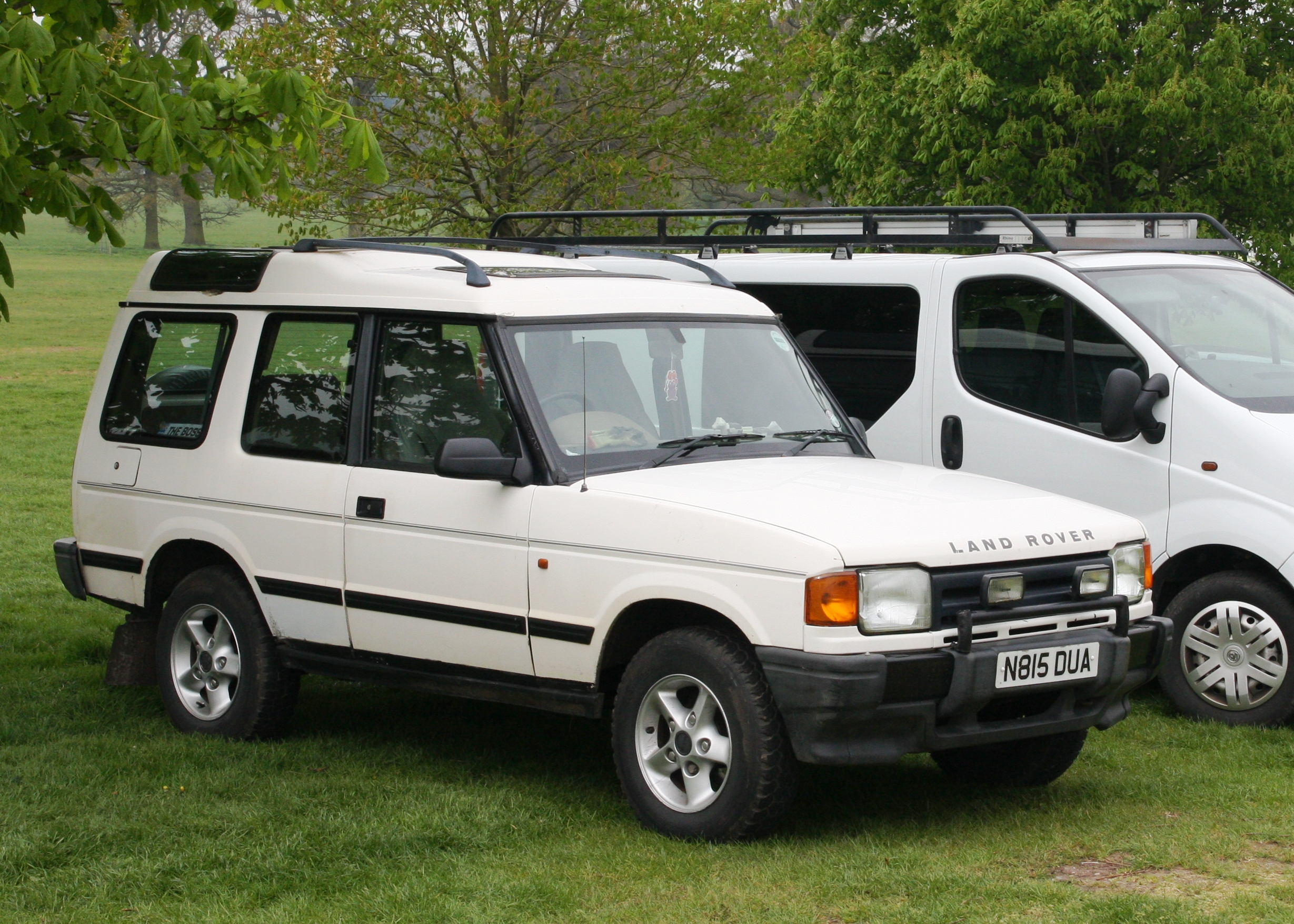 Land Rover Discovery 3-door 2.5 Tdi at Weston on Easter Sunday